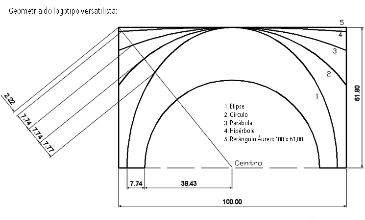 Public Logo about Versatilist Manifesto